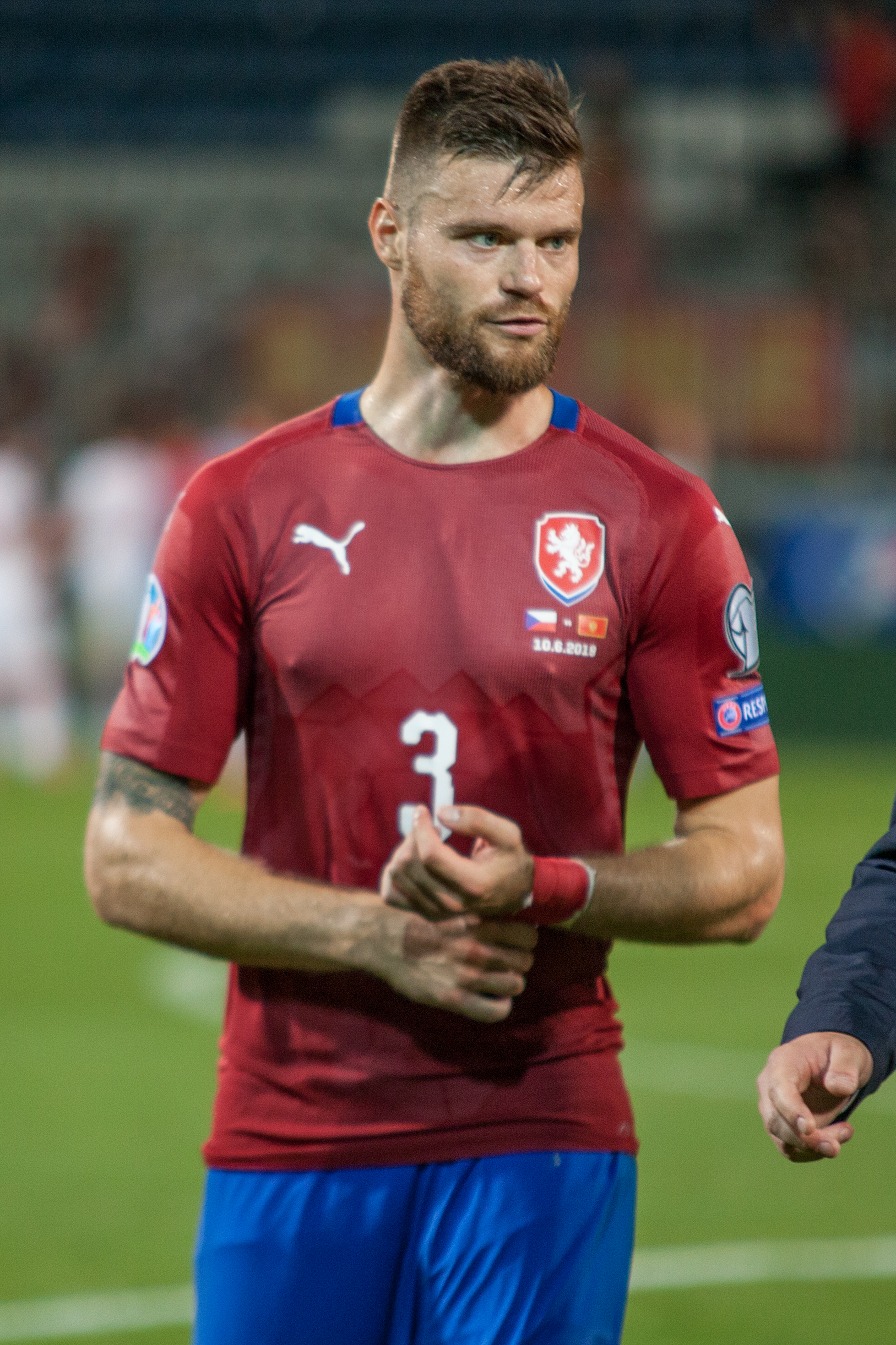 Ondřej Čelůstka at EURO 2020 Qualifying Round Czech Republic-Montenegro (10/6/2019, Ander Stadium, Olomouc) Personality rights warningAlthough this work is freely licensed or in the public domain, the person(s) shown may have rights that legally restrict certain re-uses unless those depicted consent to such uses. In these cases, a model release or other evidence of consent could protect you from infringement claims.